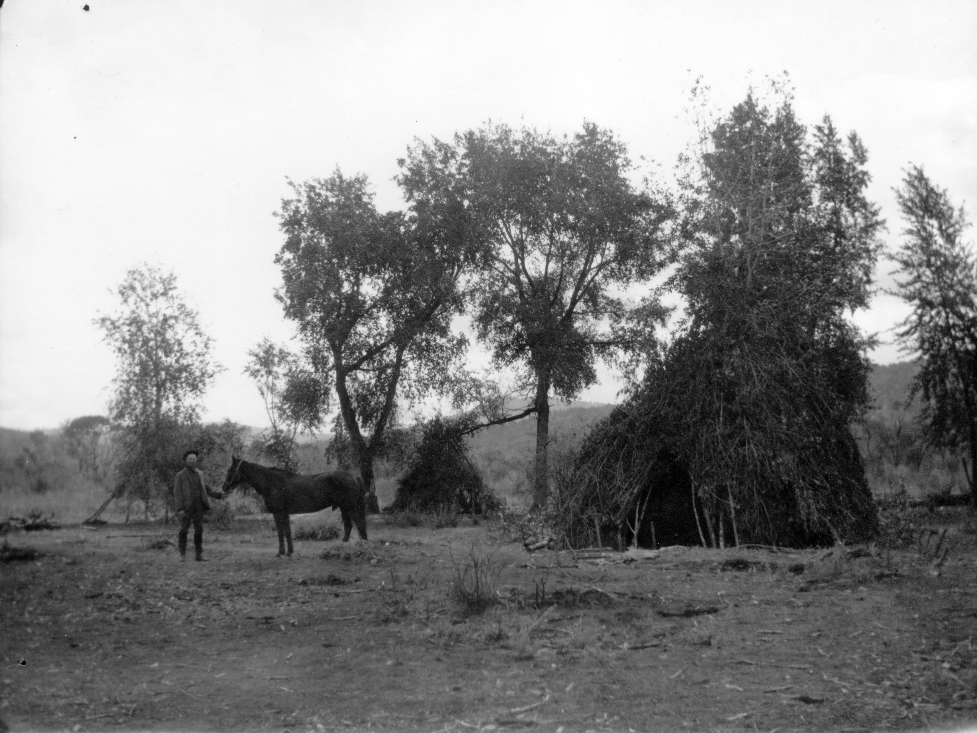 View of a man and a horse standing near Native American wickiups which are constructed of tree boughs in a tepee-like fashion.